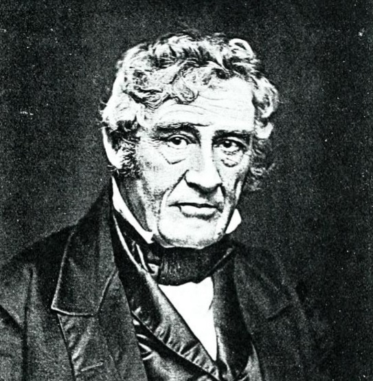 Abner Hazeltine, Congressman from New York